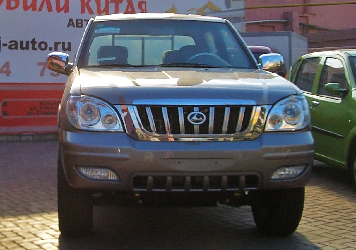 Changfeng Flying (model name in Russia), China-made cars in a car dealer's lot in Nizhny Novgorod's Kanavinsky District